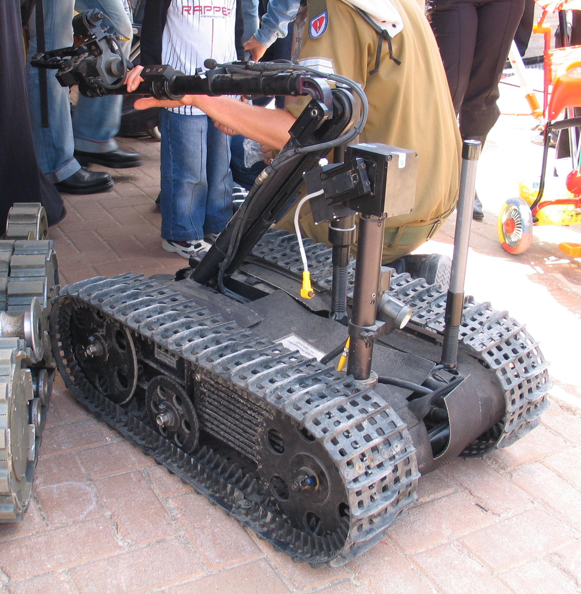 Bomb disposal robot. Independence Day exhibition at Yad la-Shiryon Museum, Latrun, Israel.